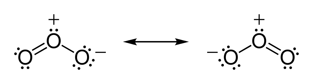 Resonance Lewis structures of the ozone molecule, O3. Structure, determined by microwave spectroscopy, from CRC Handbook, 88th edition. Structure drawn in ChemDraw Ultra 11.0.